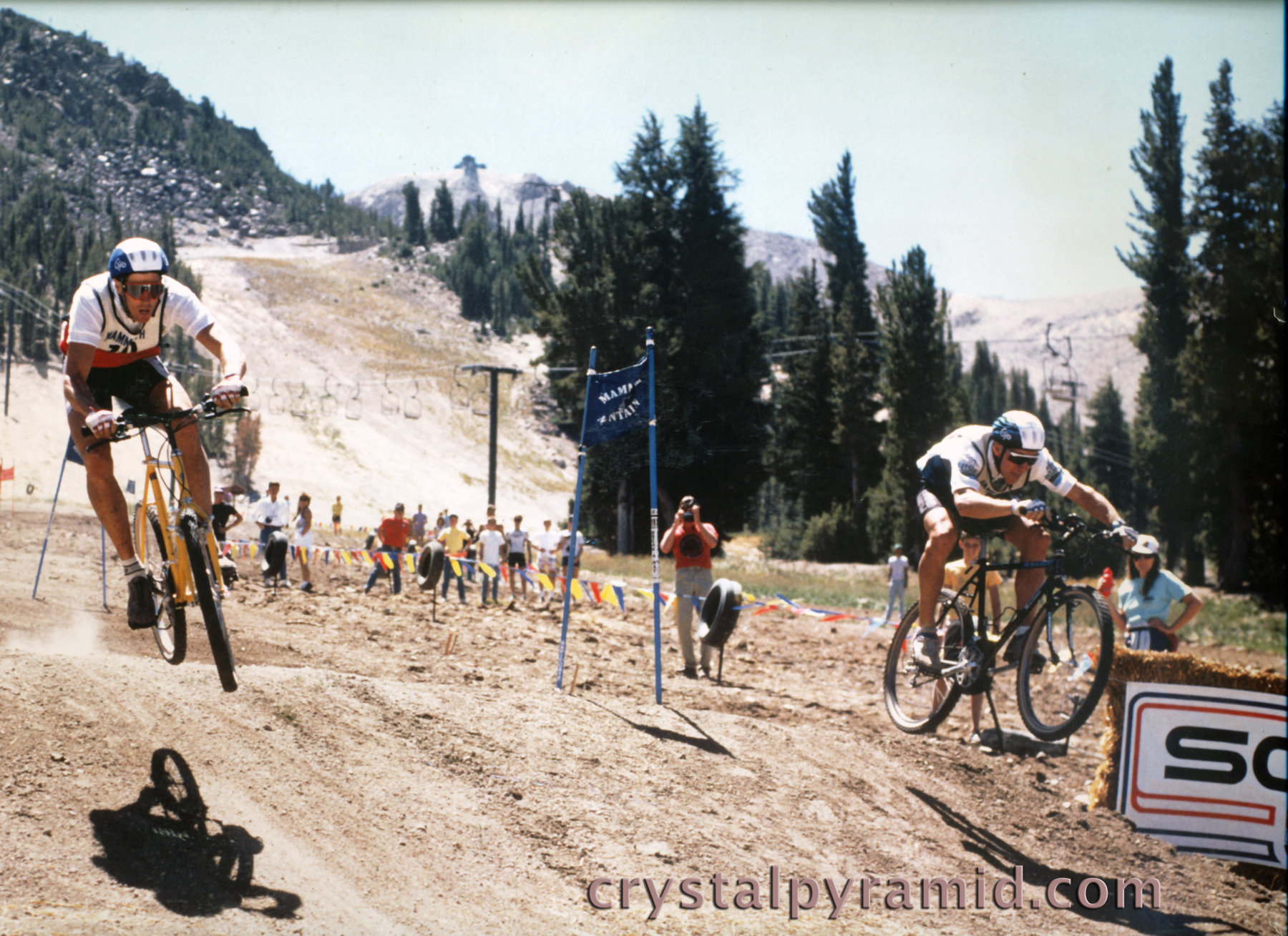 The first-ever Dual Slalom race occurred on Mammoth Mountain in August 1988. Professional mountain bikers Jimmy Deaton and John Tomac square off here. Photograph by Mark Schulze of Crystal Pyramid Productions, San Diego, California.